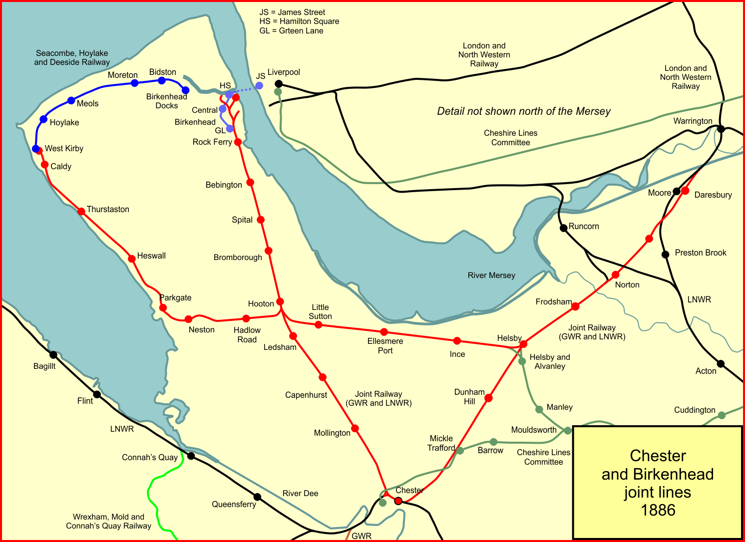 System map of the Birkenhead Joint Lines system, Wirral, England, in 1886 after completion of the West Kirby line